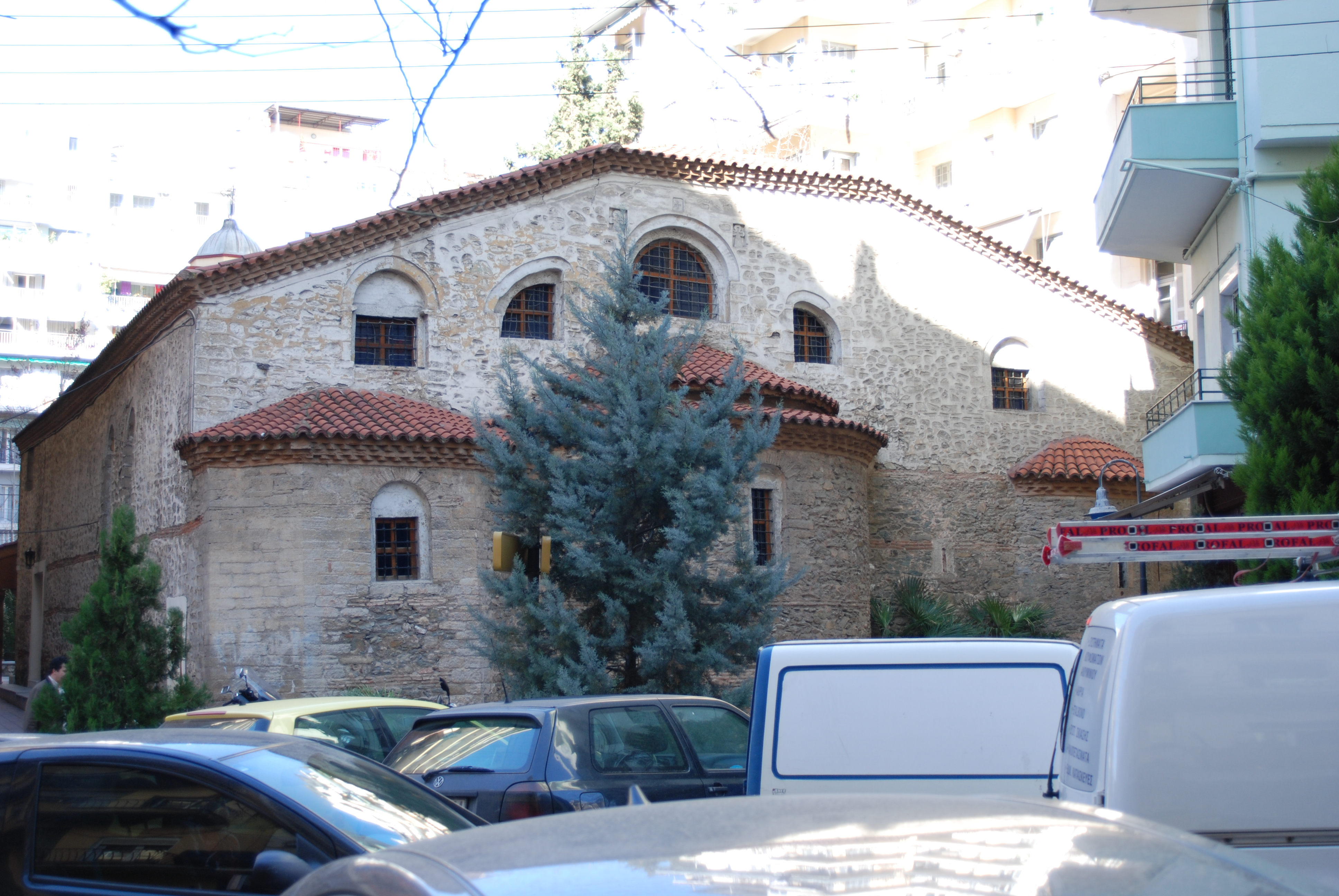 Panagouda Church in Thessaloniki by George Groutas